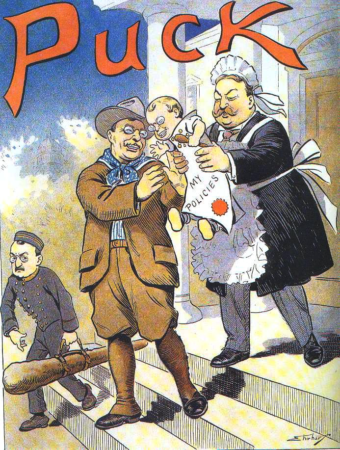 1909 cartoon from Puck magazine. Outgoing US president Teddy Roosevelt (dressed as a cowboy) hands responsibility (in form of a baby that looks like Roosevelt labeled "My Policies") to his successor William Howard Taft (wearing a nurse-maid's apron and bonnet over his suit). TR's secretary William Loeb, dressed as a bell boy, carries Roosevelt's "Big Stick." Public domain image (pre 1923 USA), It was never copyrighted in other countries